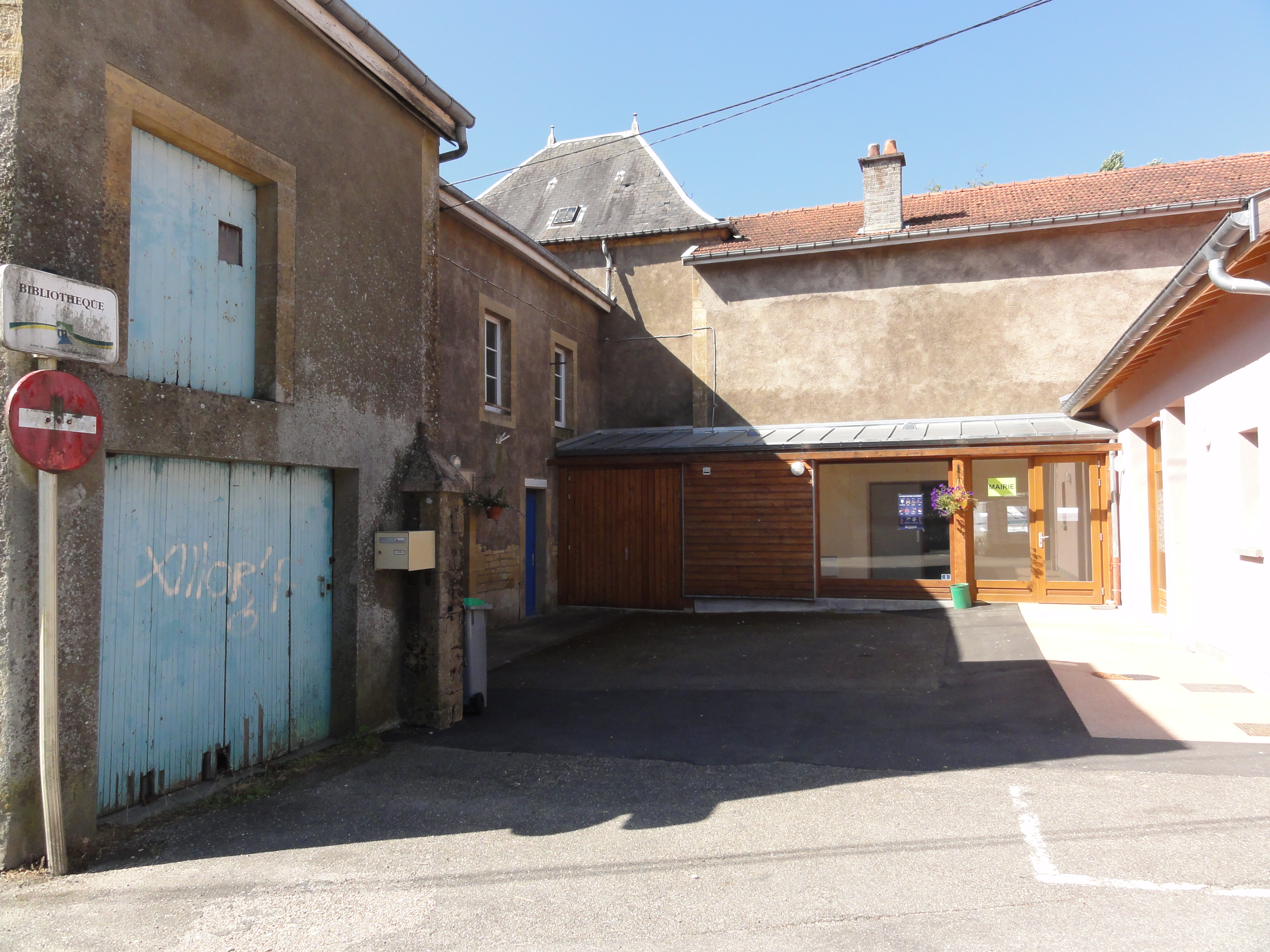 Arrancy-sur-Crusne (Meuse) mairie